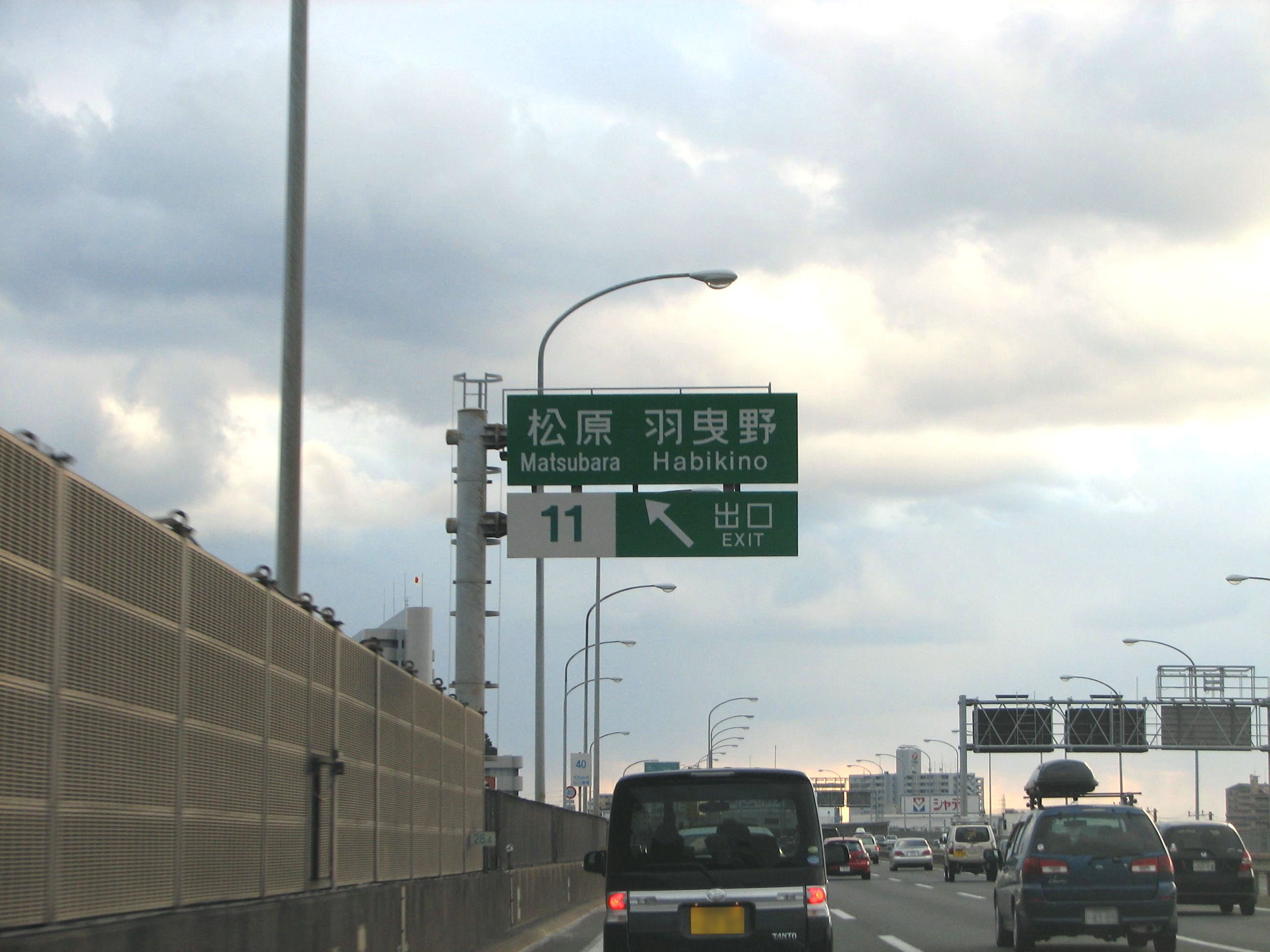 Matsubara IC